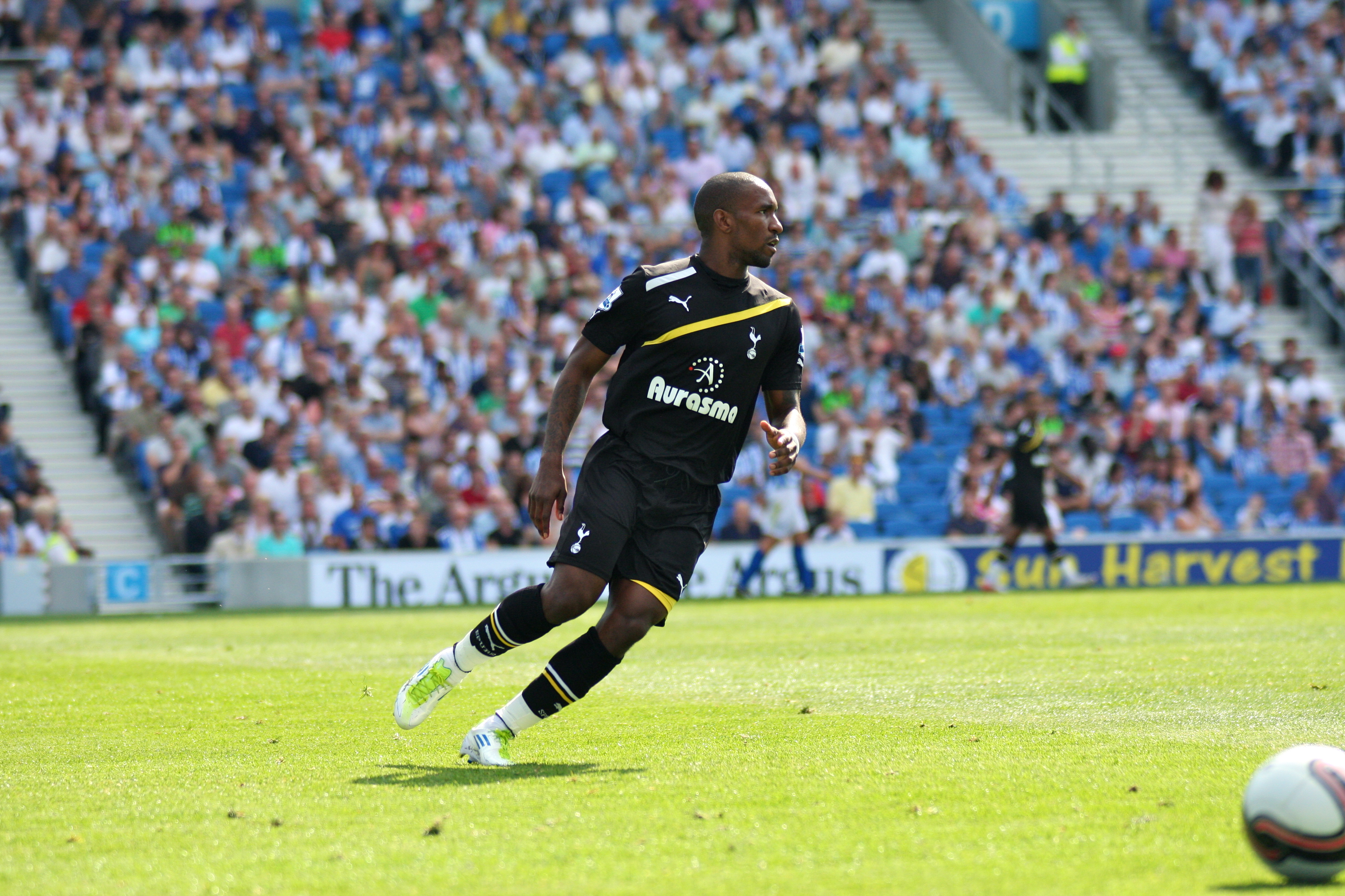 Jermain Defoe of Tottenham in July 2011.